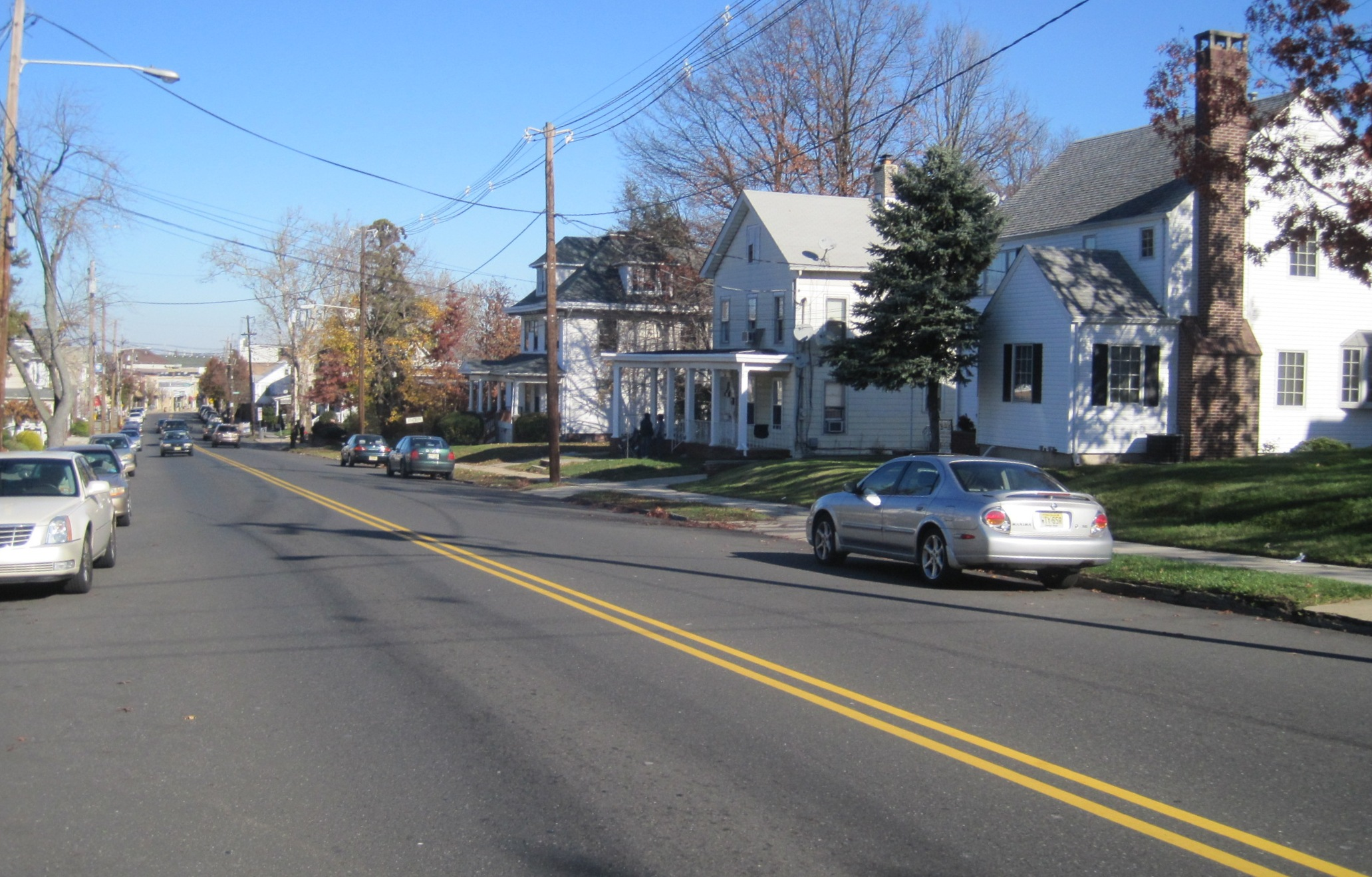 Photo of the residential section of South River, New Jersey. Photo taken along Main Street (County Route 535) looking east.